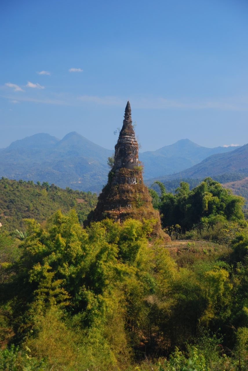 Ancient stupa of the Muang Khoung Kingdom : That Foun